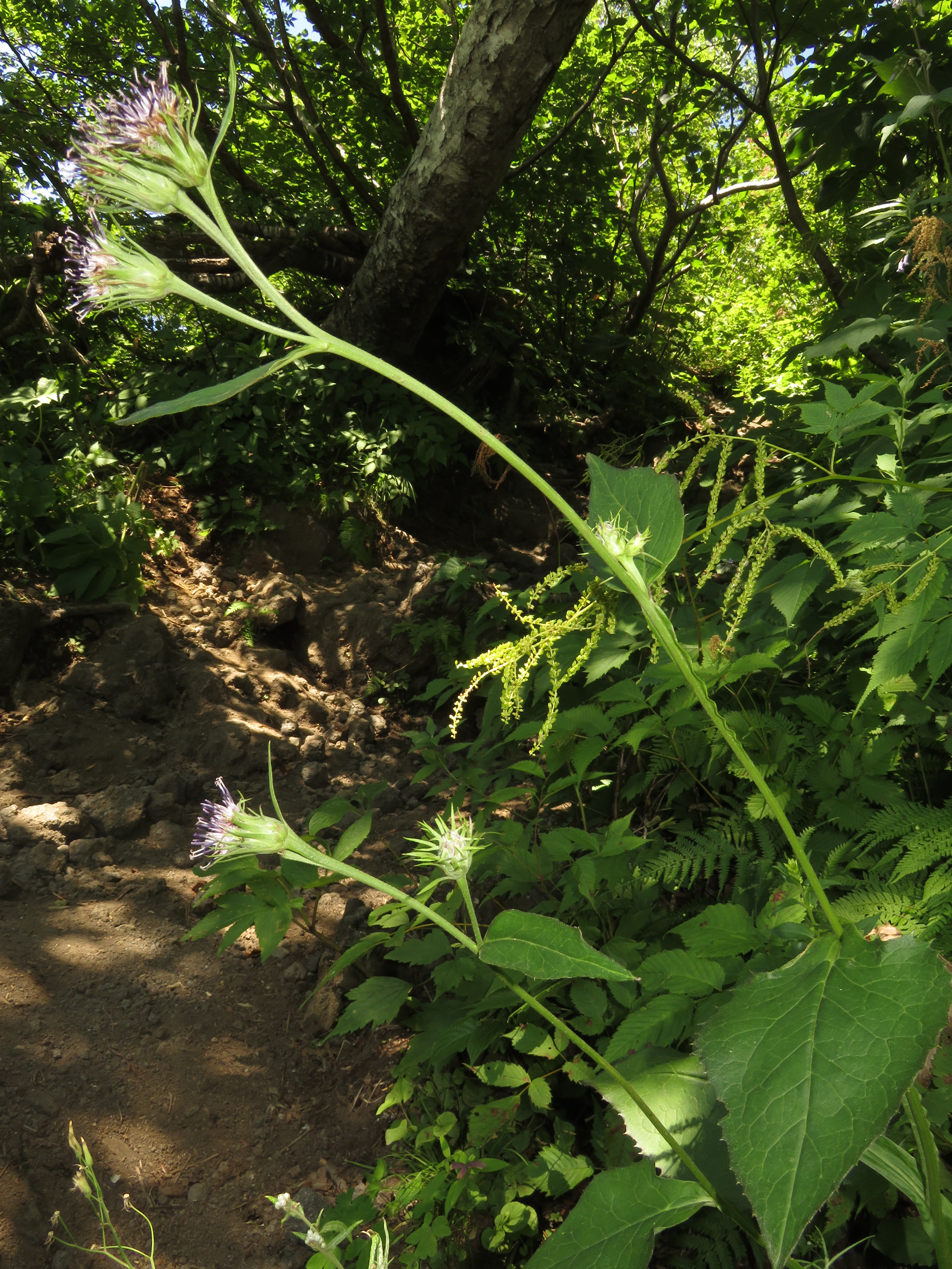 Saussurea brachycephala, Mount Iwate, Iwate pref., Japan